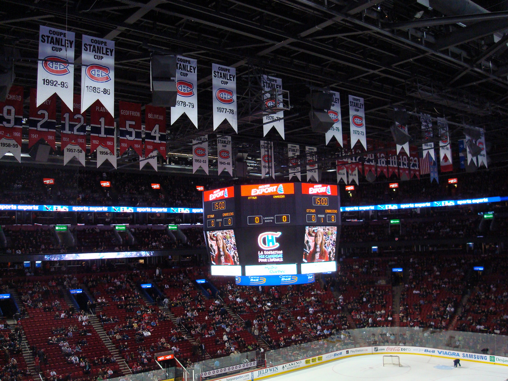 A photograph of the inside of the Bell Center during a Montreal Canadiens game.